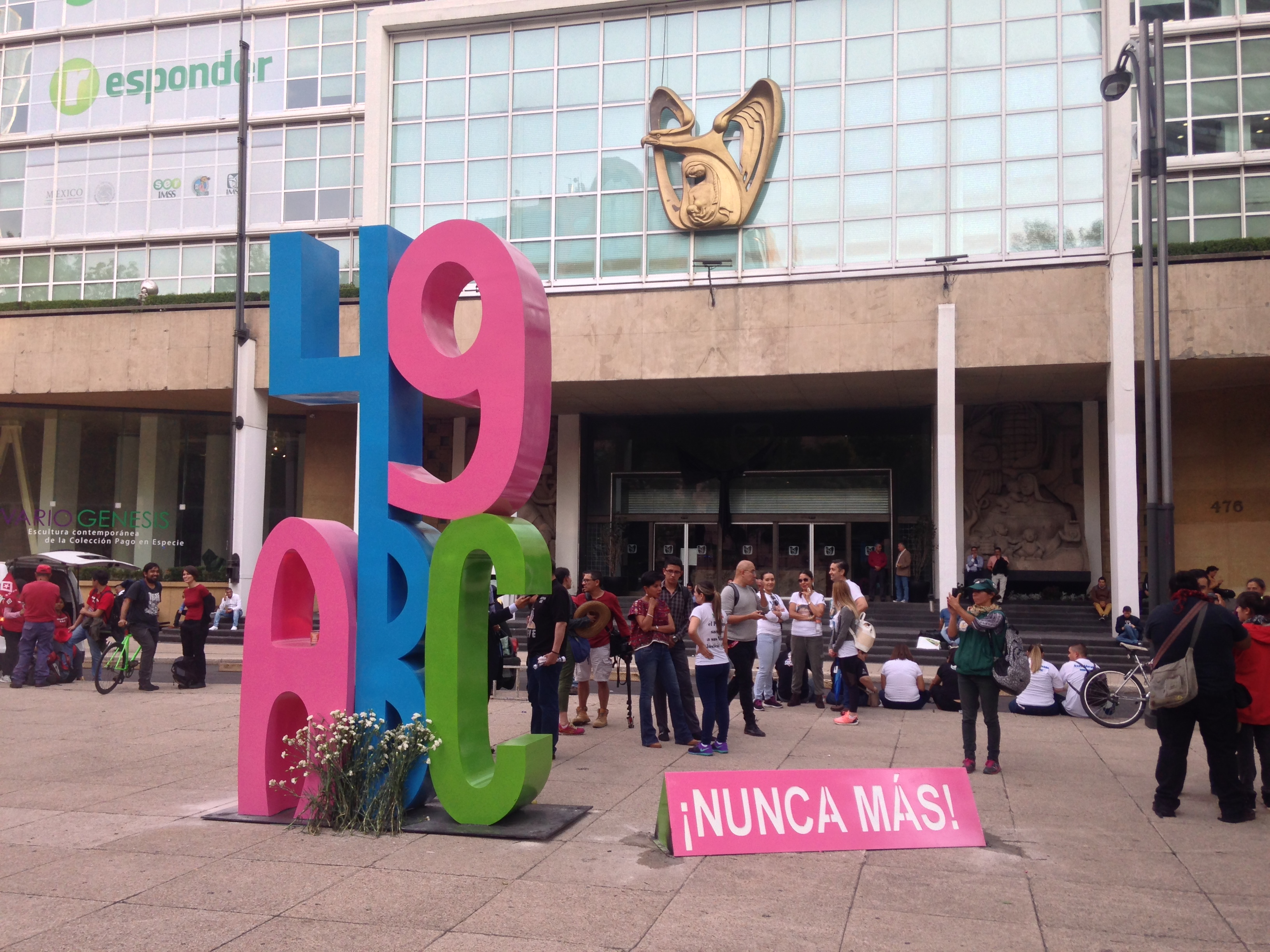 Monument to victims in front of Instituto Mexicano del Seguro Social. Demonstration in conmemoration of 2009 Hermosillo daycare center fire. Mexico City